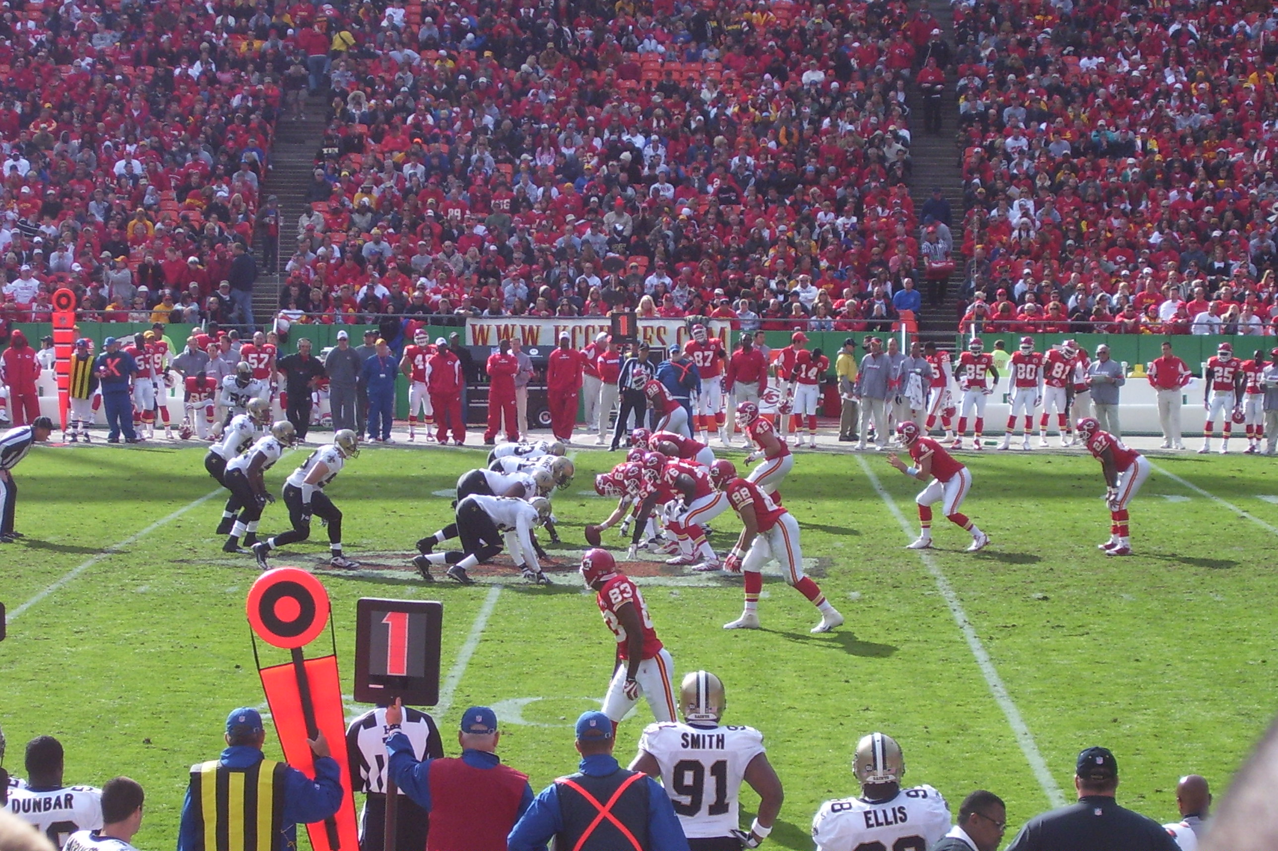 New Orleans Saints at Kansas City Chiefs, November 16, 2008, at Arrowhead Stadium in Kansas City, MO.